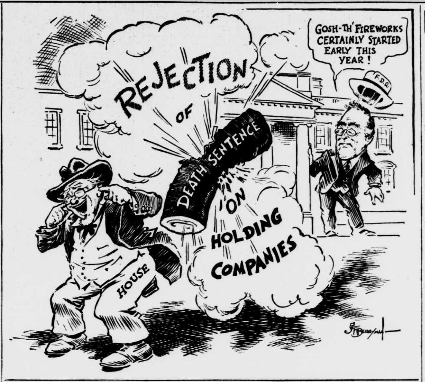 Following the House of Representatives vote on the Wheeler-Rayburn Bill the political comic was posted on the front page of the Washington Evening Star on July 3rd 1935.